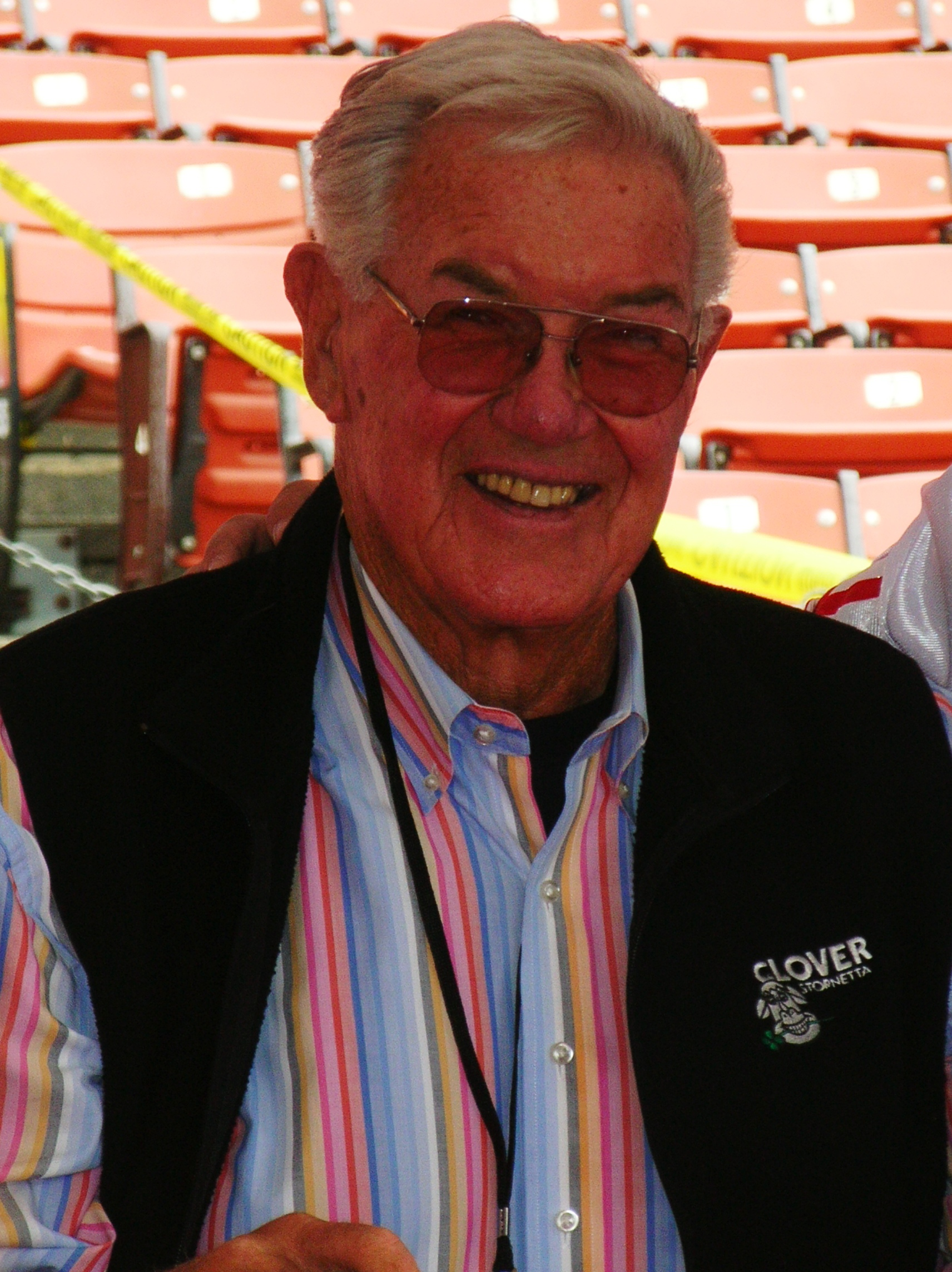 Former San Francisco 49ers offensive tackle Bob St. Clair at the San Francisco 49ers Family Day 2009 at Candlestick Park.